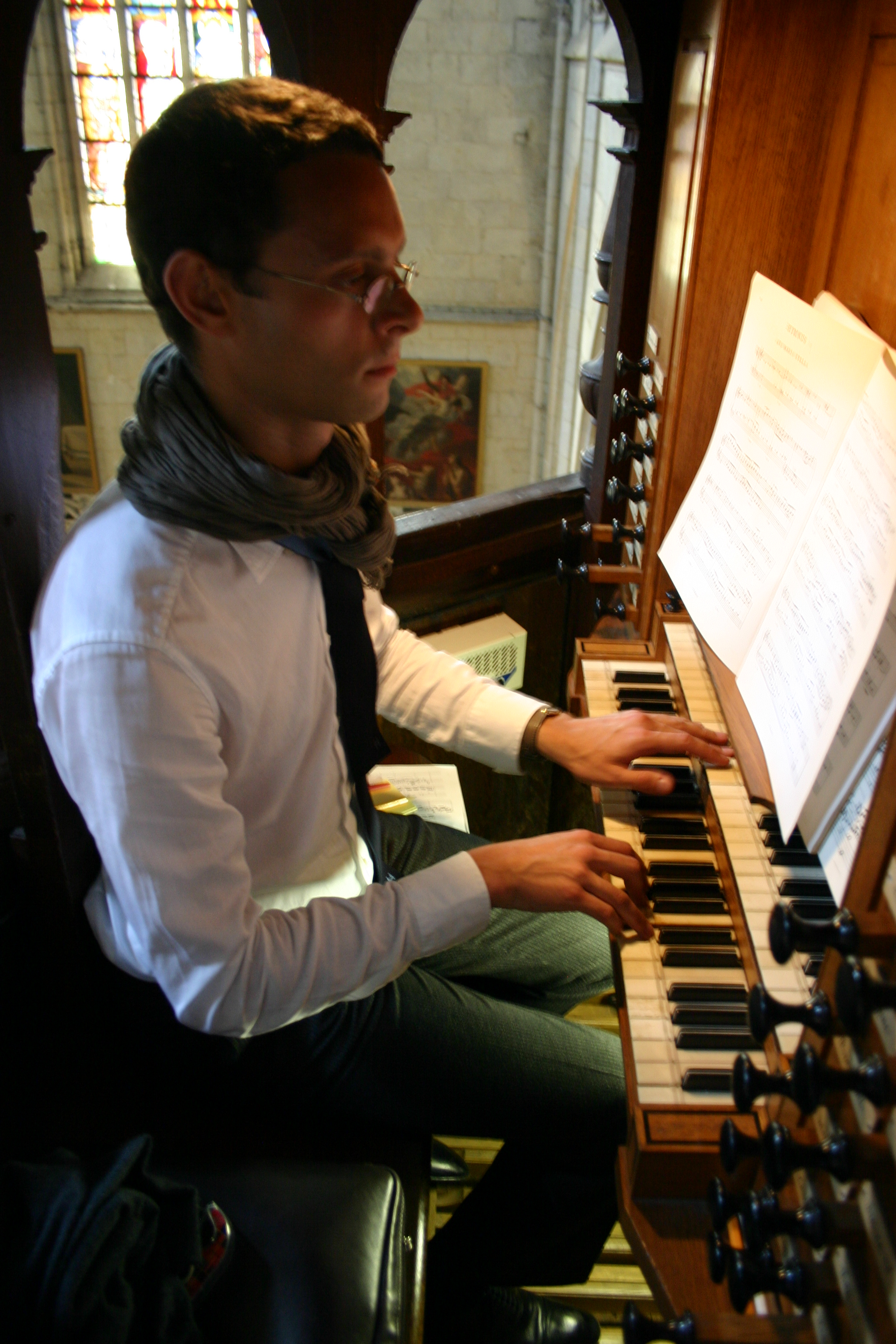 Benjamin Alard in 2010 at La Ferté-Bernard (France)